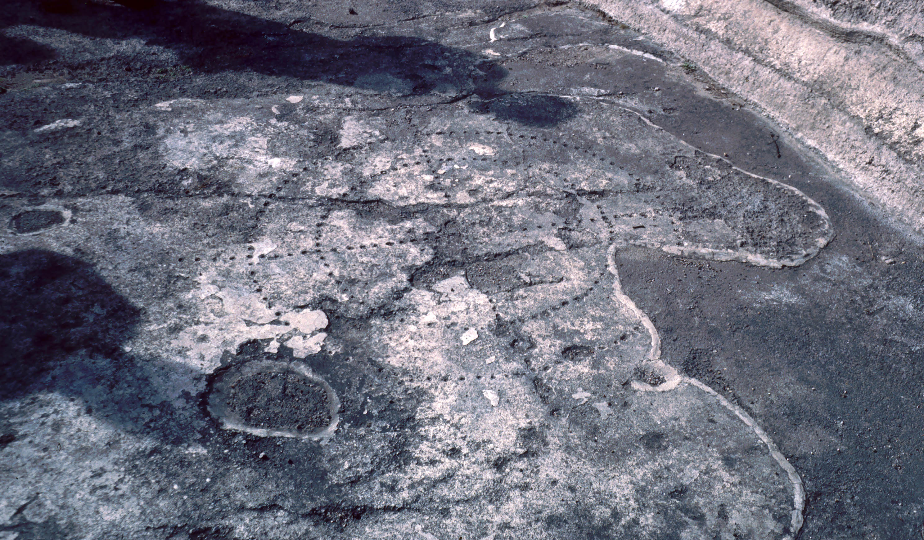 Teotihuacan, Mexico: marker in Ciudadela complex.